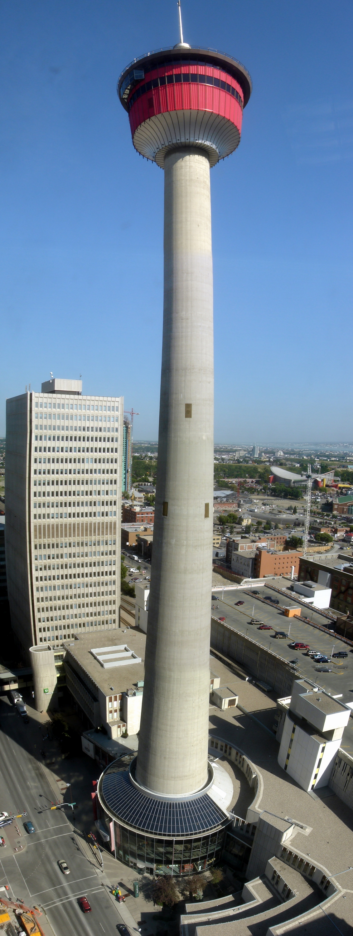 Calgary tower, Calgary Alberta